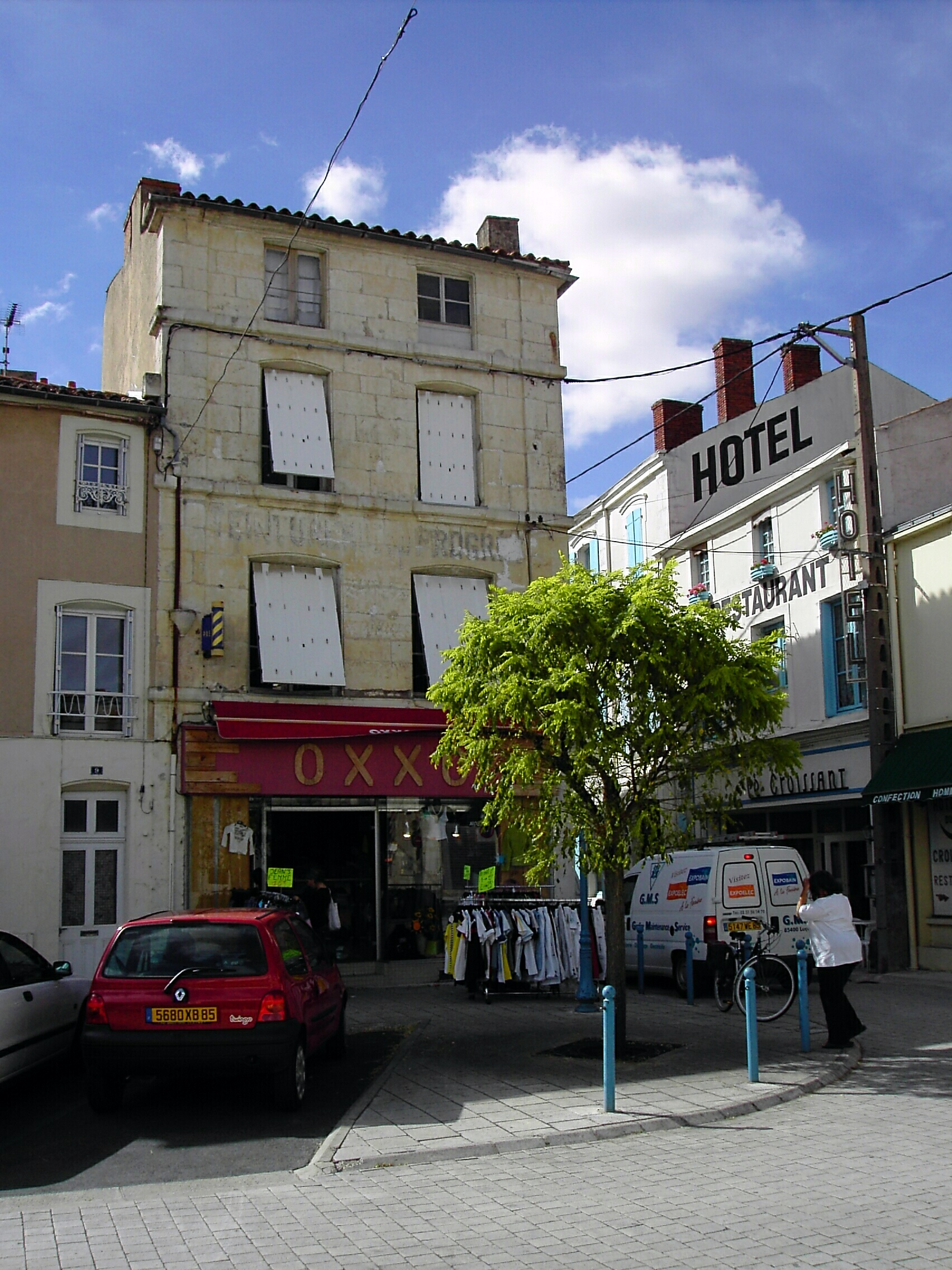 Lucon-City